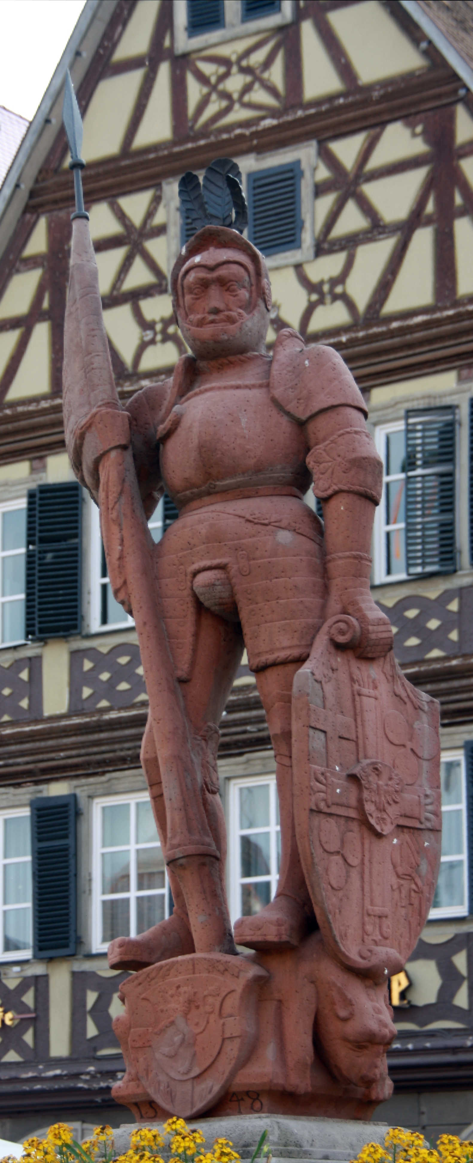 Statue of Knight Wolfgang Schutzbar, called Milchling, at a fountain in the marketplace of Bad Mergentheim